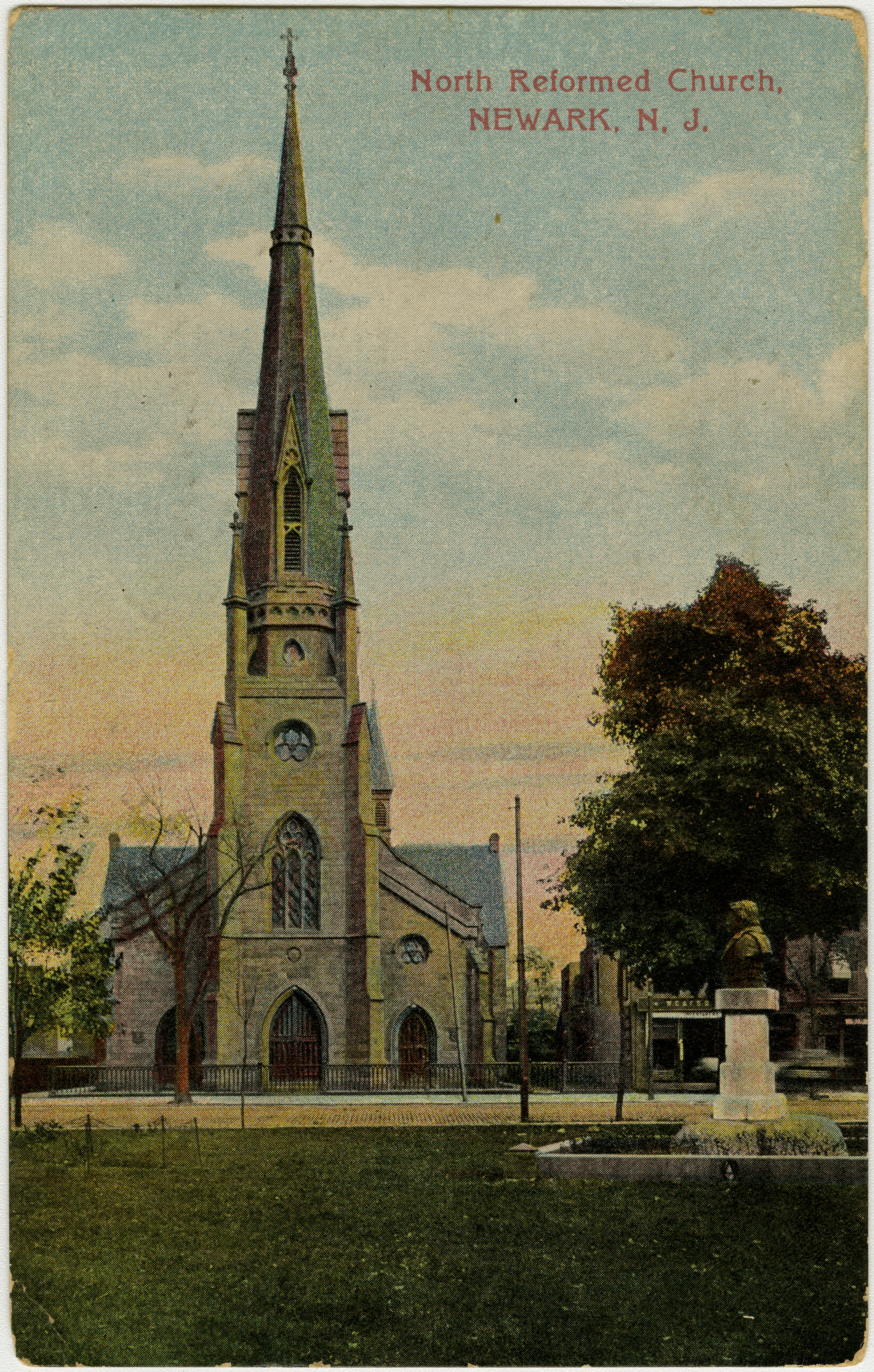 North Reformed Church in Newark, New Jersey from a pre-1923 postcard From RG 428, Postcard Collection, Presbyterian Historical Society, Philadelphia, Pennsylvania.